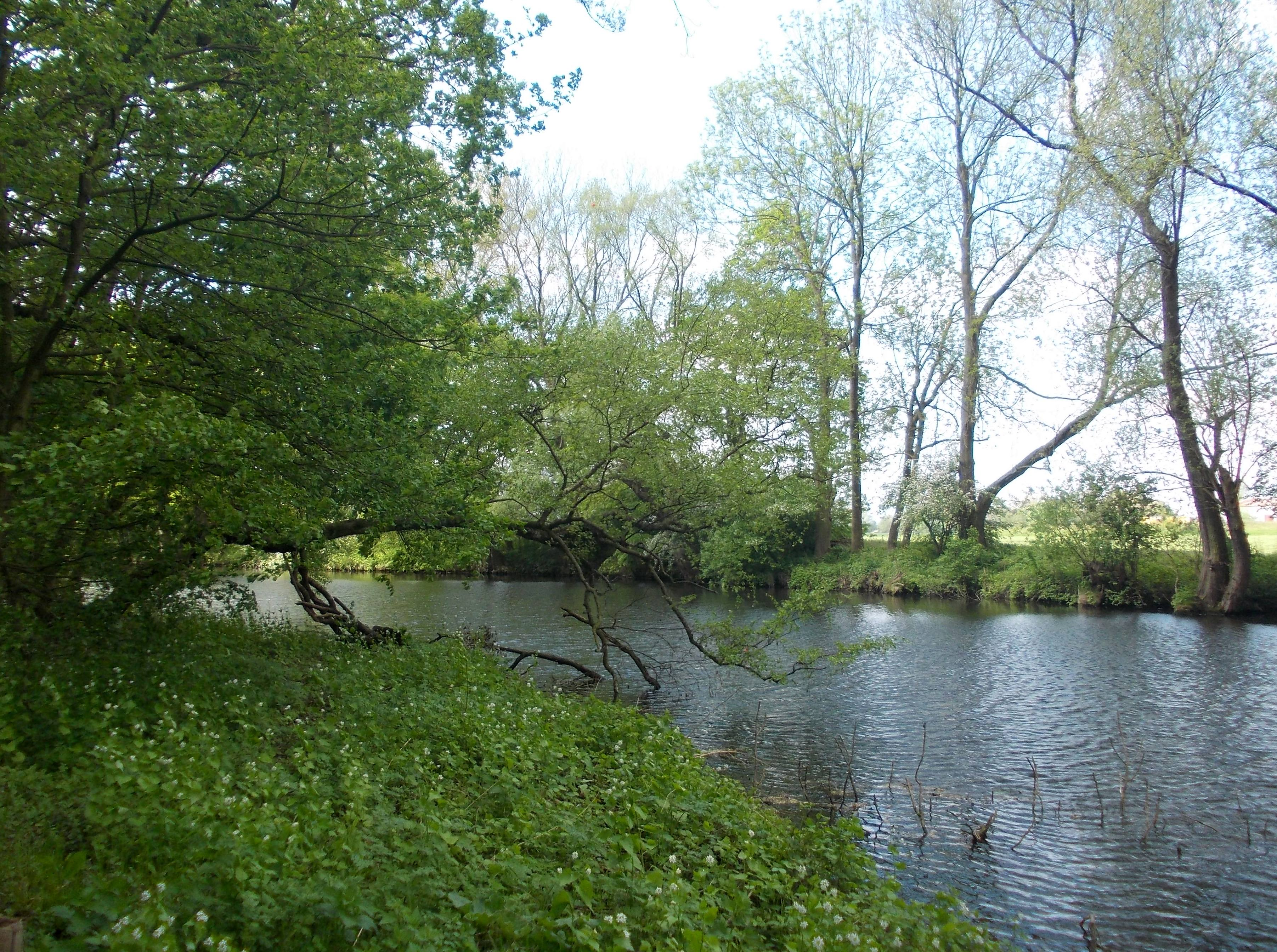 Schwennigke river in Pfarrholz Groitzsch nature reserve (Leipzig district, Saxony)